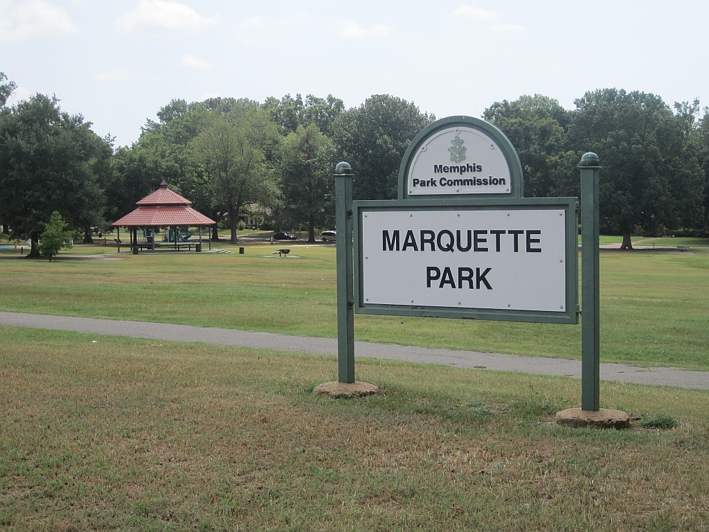 Marquette Park on Park Avenue west of Mount Moriah Road in Memphis, Tennessee.